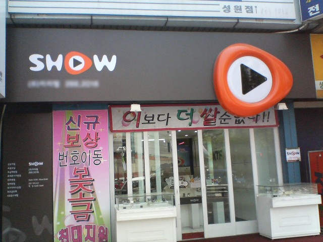 A mobile phone store in South Korea.